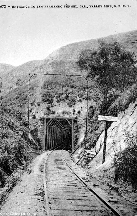 Construction of the tunnel began on March 22, 1875 and it was completed on July 14, 1876. Hundreds of Chinese laborers worked on the tunnel. The tunnel was considered a great engineering achievement at the time and it was important because it connected Northern and Southern California by rail. Black and white photographic postcard, 3.5 x 5.5 in. Story of the tunnel construction:[1]